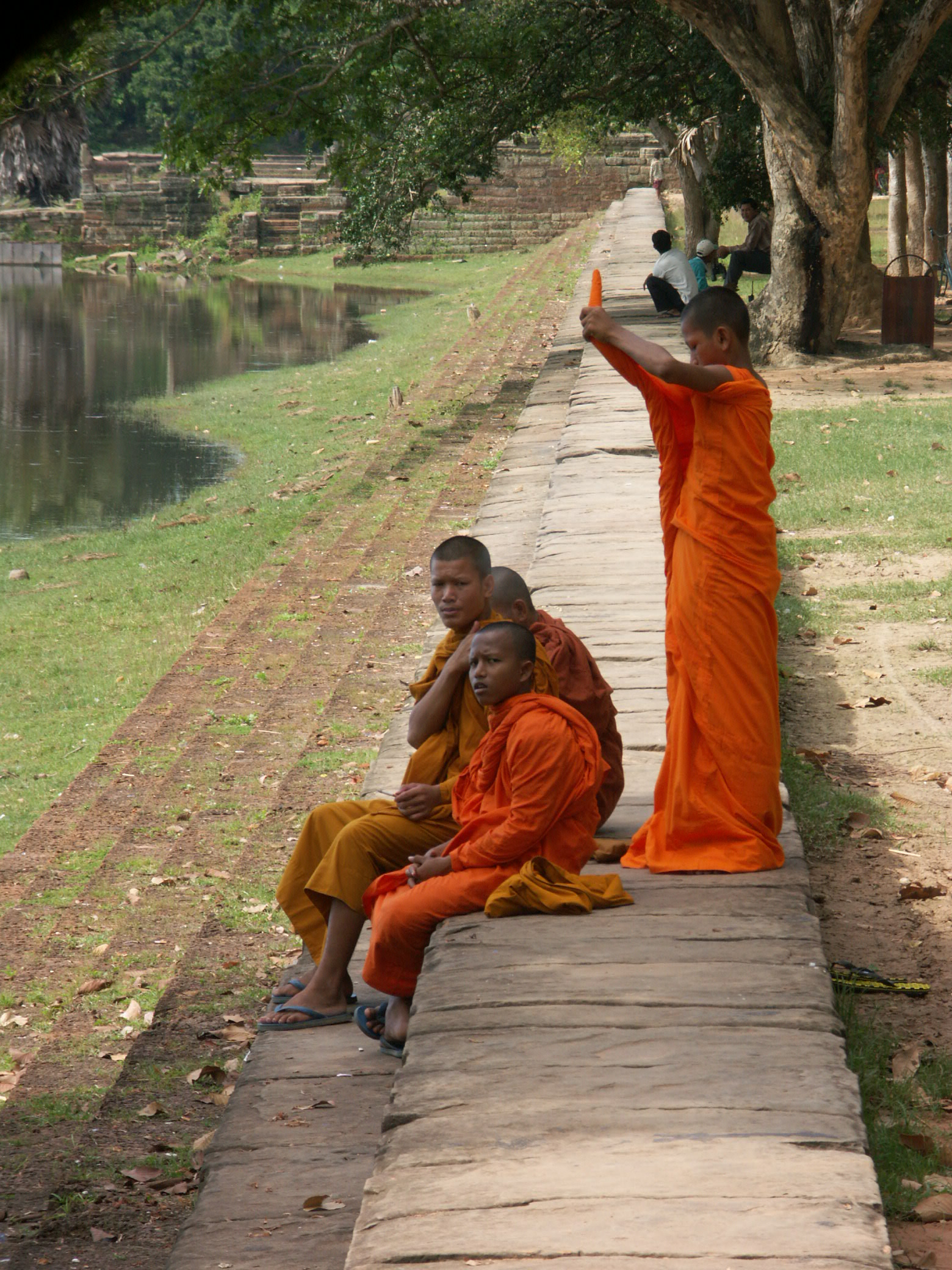 Srah Srang baray near Angkor Vat, Cambodia